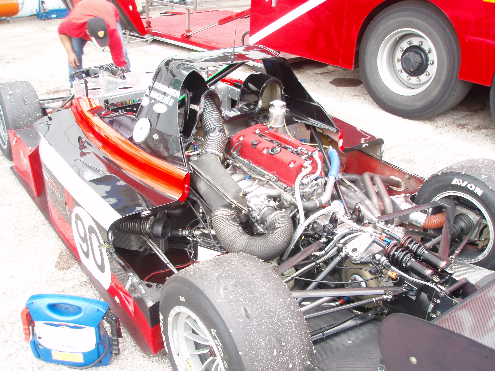 2007 FFSA Proto 2 litres car in Dijon-Prenois - Engine & rear suspension